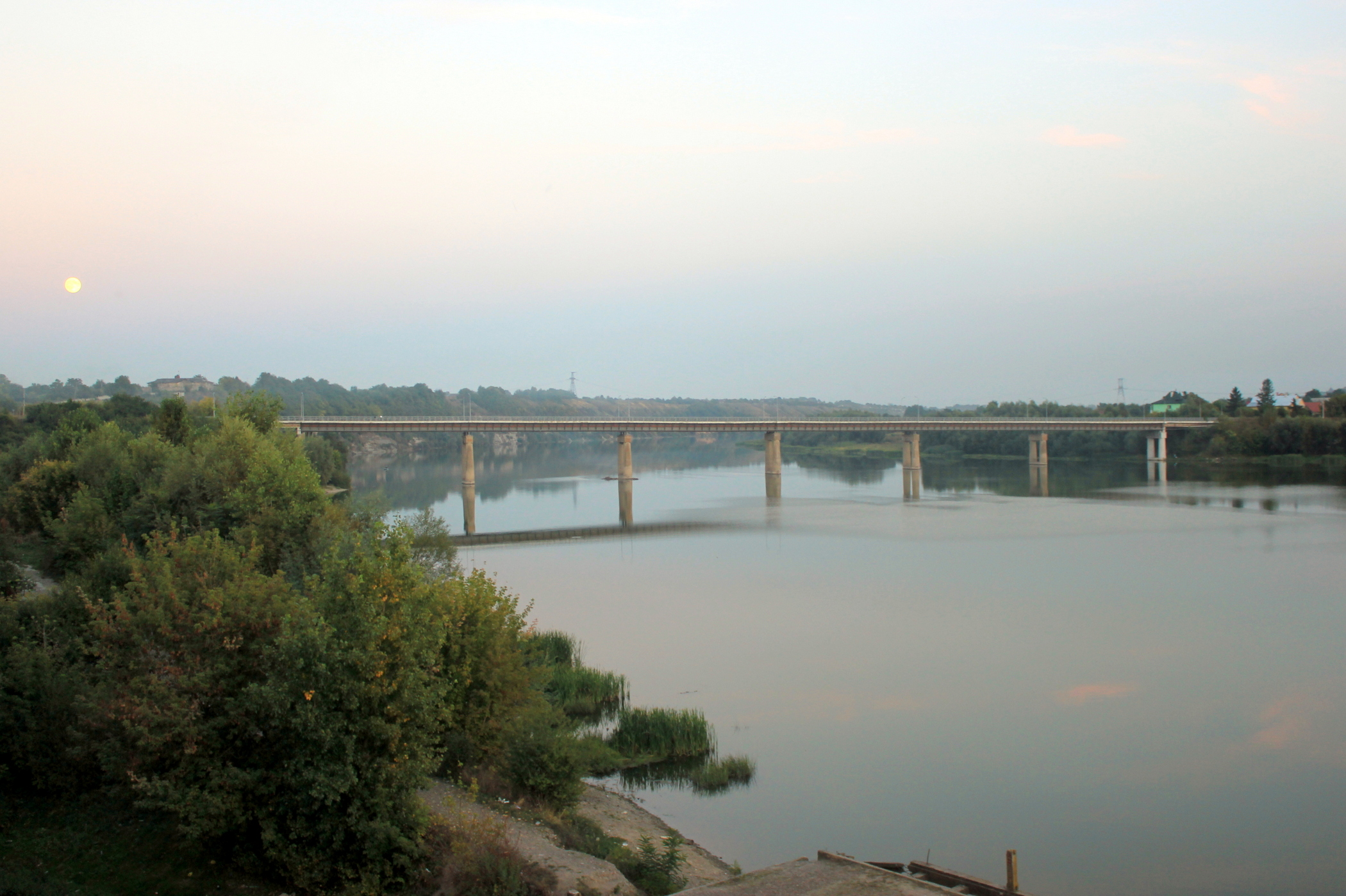 Bridge of N 03 road on river Dniester near Khotyn, Ukraine.